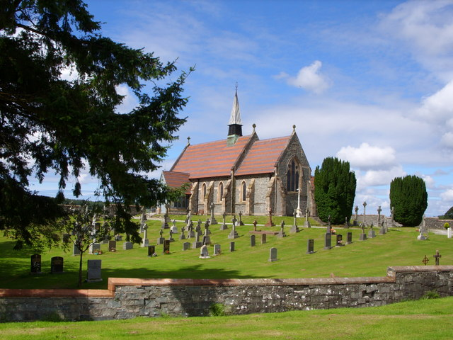 Challoch Church